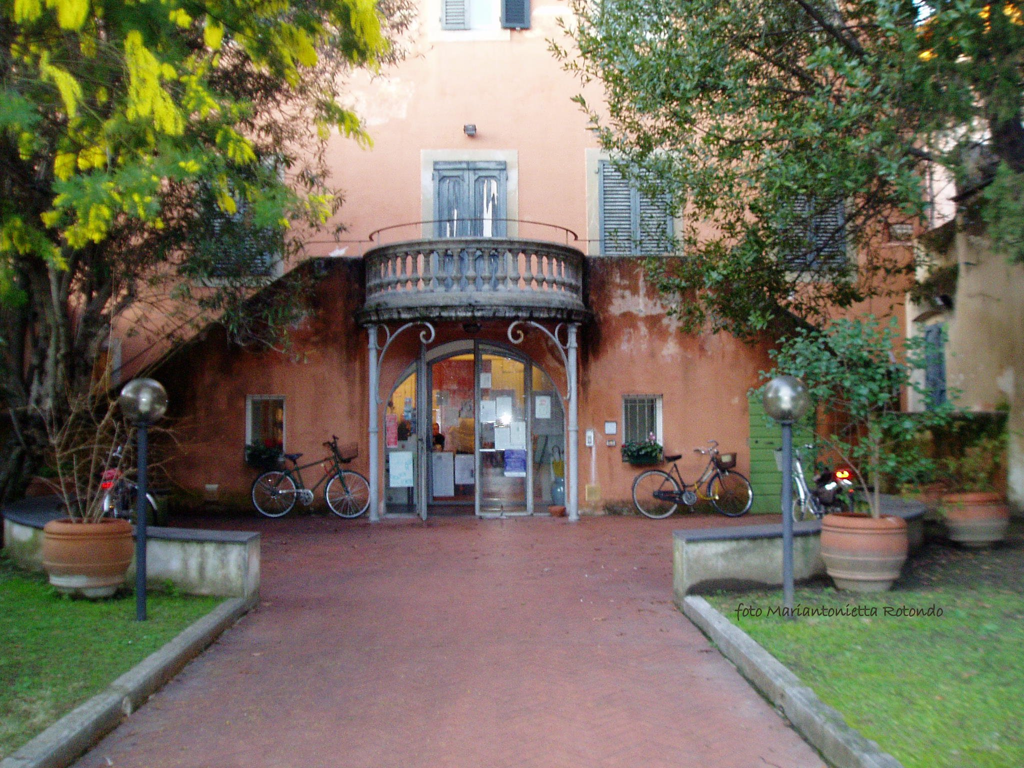 Library Anna Cucchi, Pisa, Italy